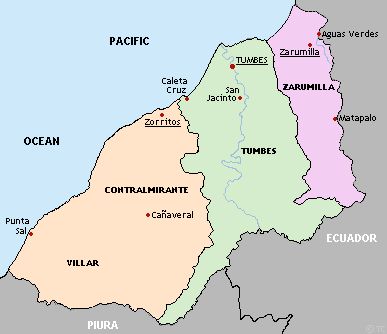 Map of the Tumbes region (Peru)